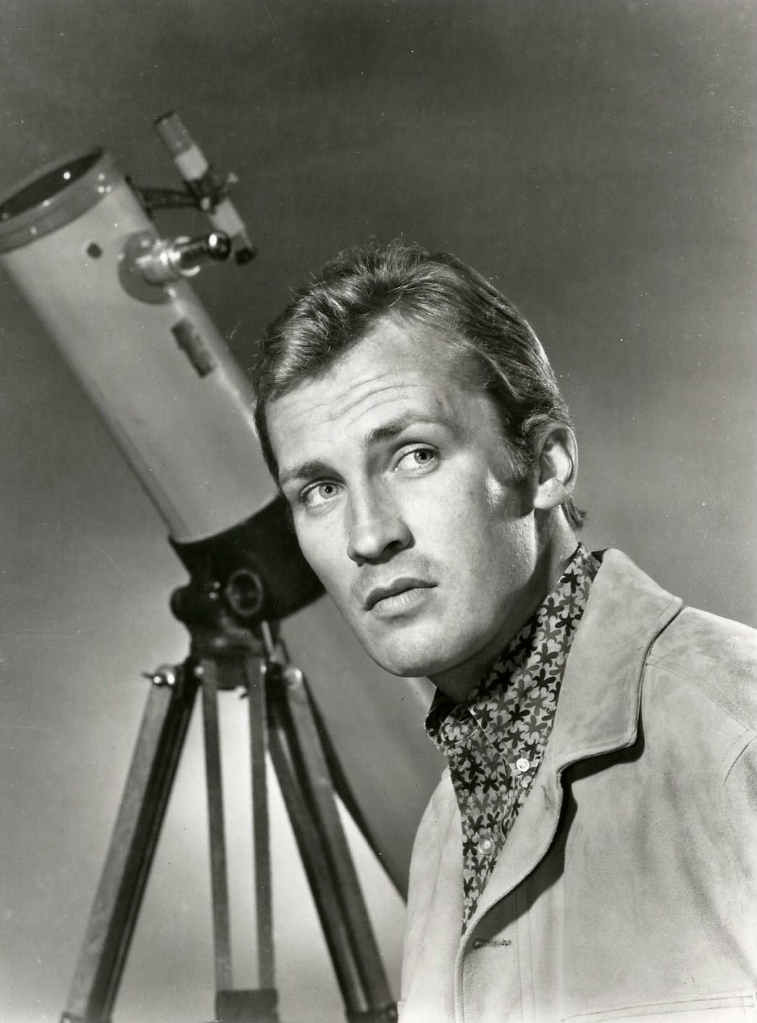 Photo of Roy Thinnes from the television program The Invaders.